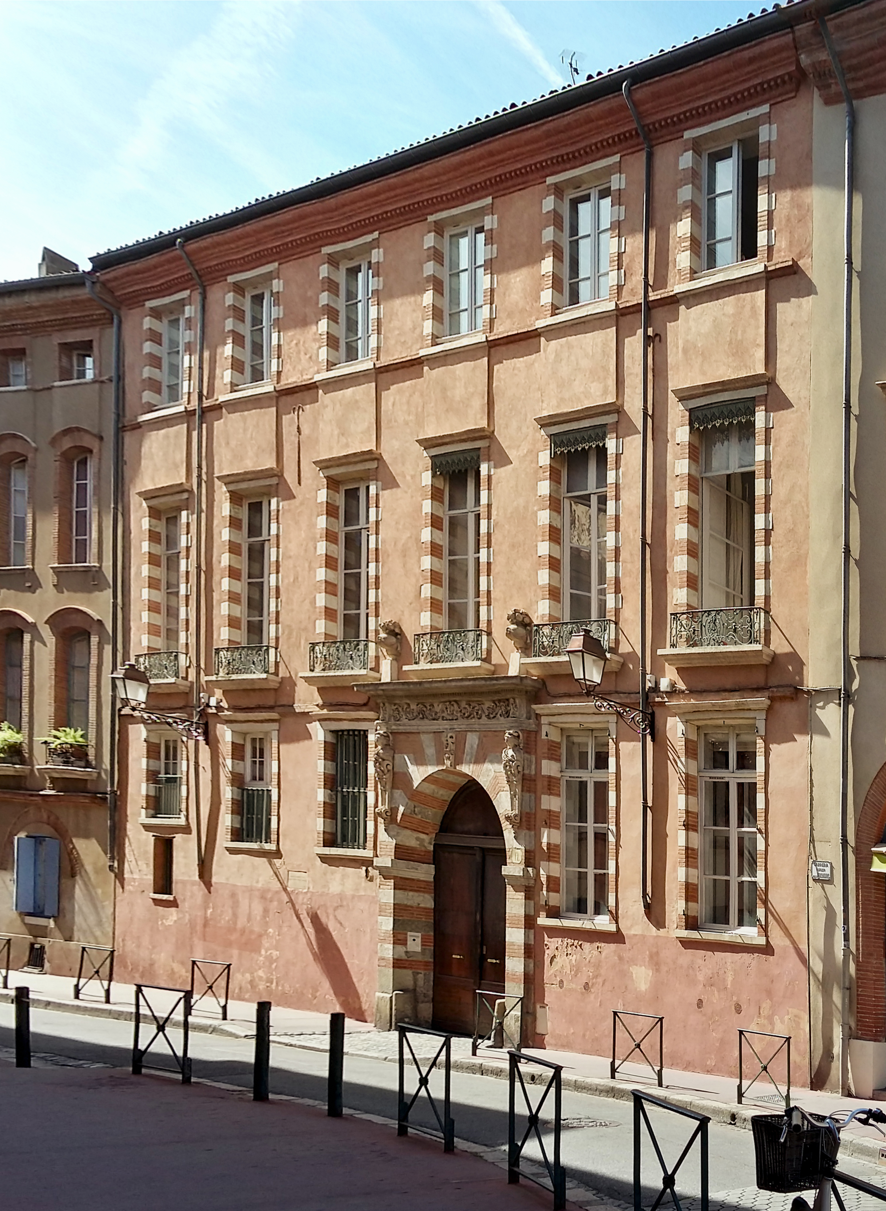 Facade of Hôtel d'Orbessan, Mage Street, in Toulouse.